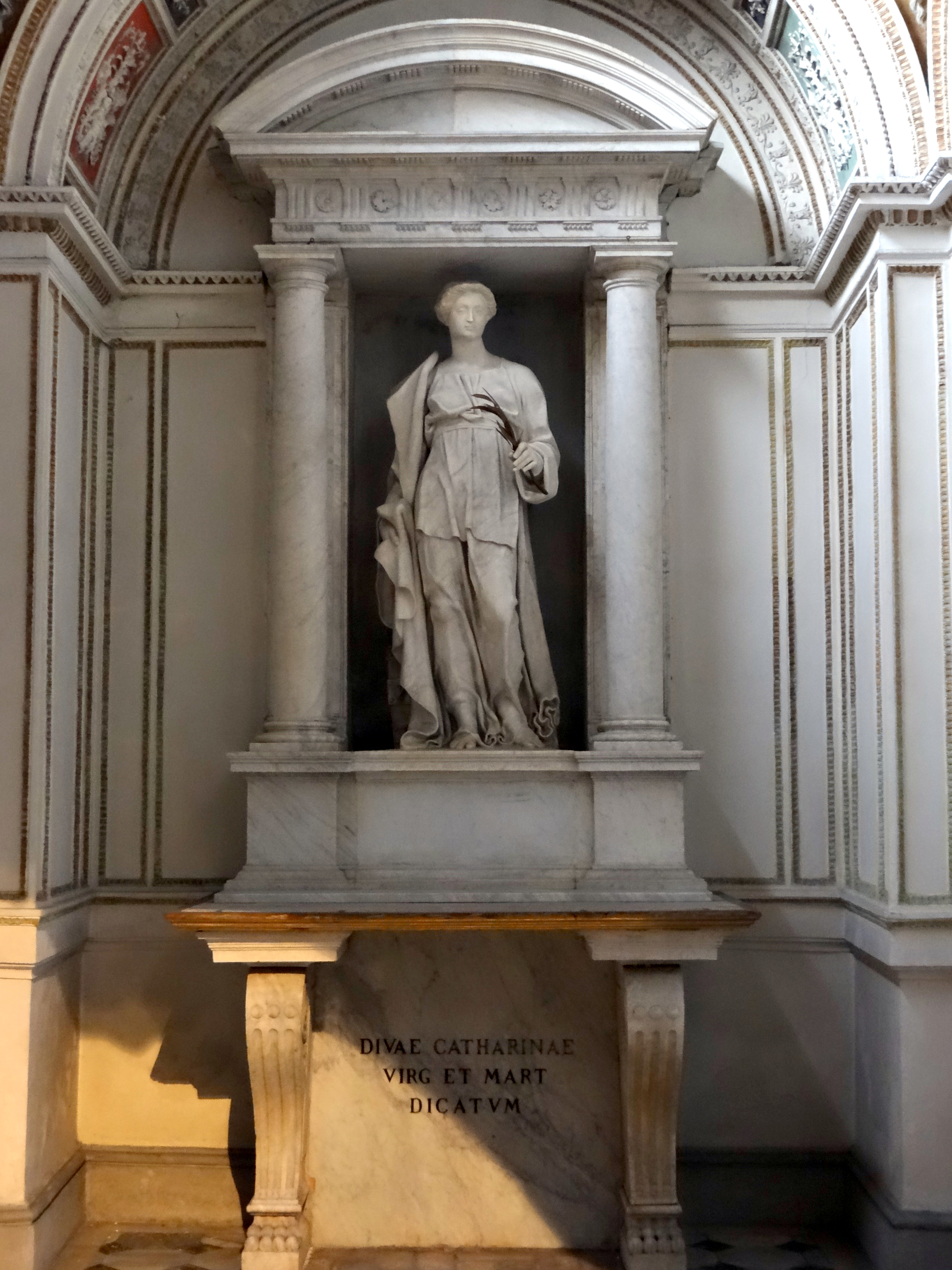 The statue of St Catherine by Giulio Mazzoni in the Theodoli Chapel, Santa Maria del Popolo (before 1575).